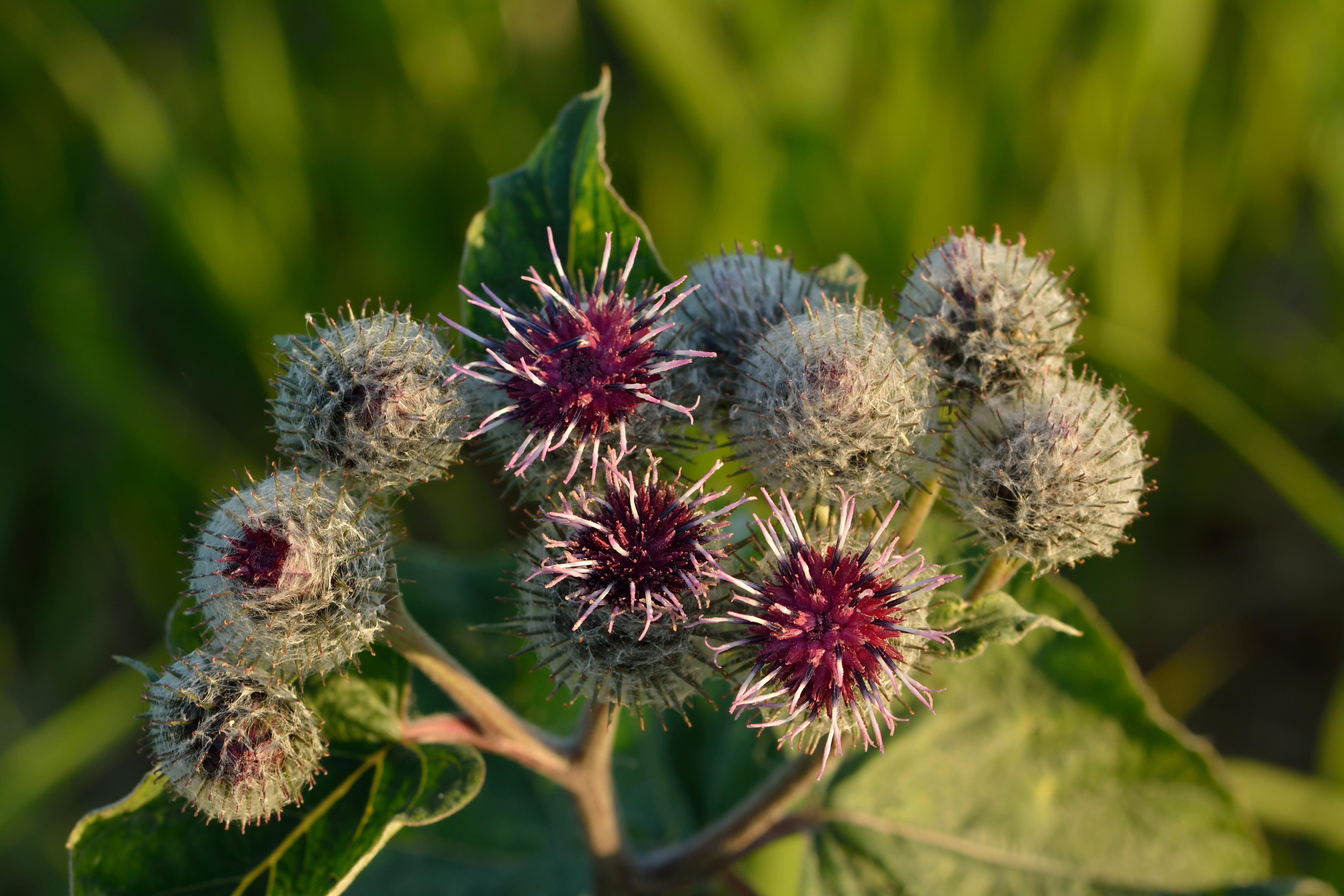 Downy burdock (Arctium tomentosum). Keila, Northwestern Estonia.